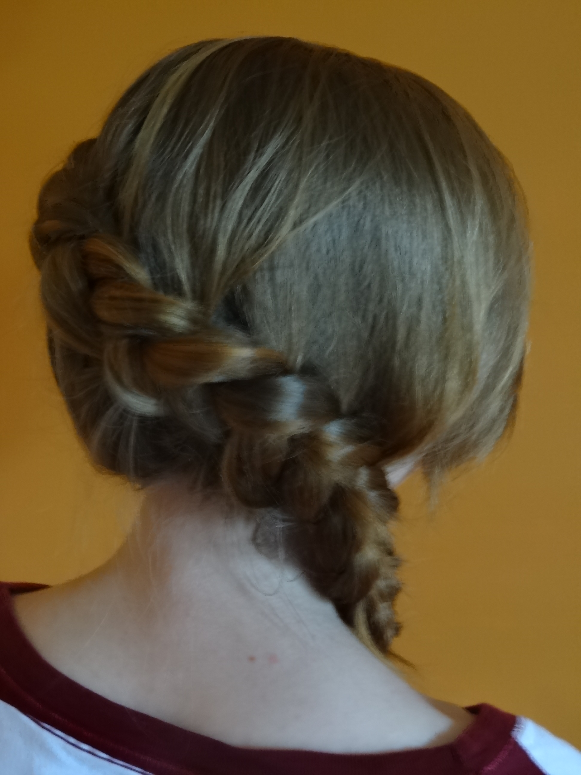 Katniss Braid (referring to the movie The Hunger Games), that is a dutch braid which goes diagonally over the back of the head